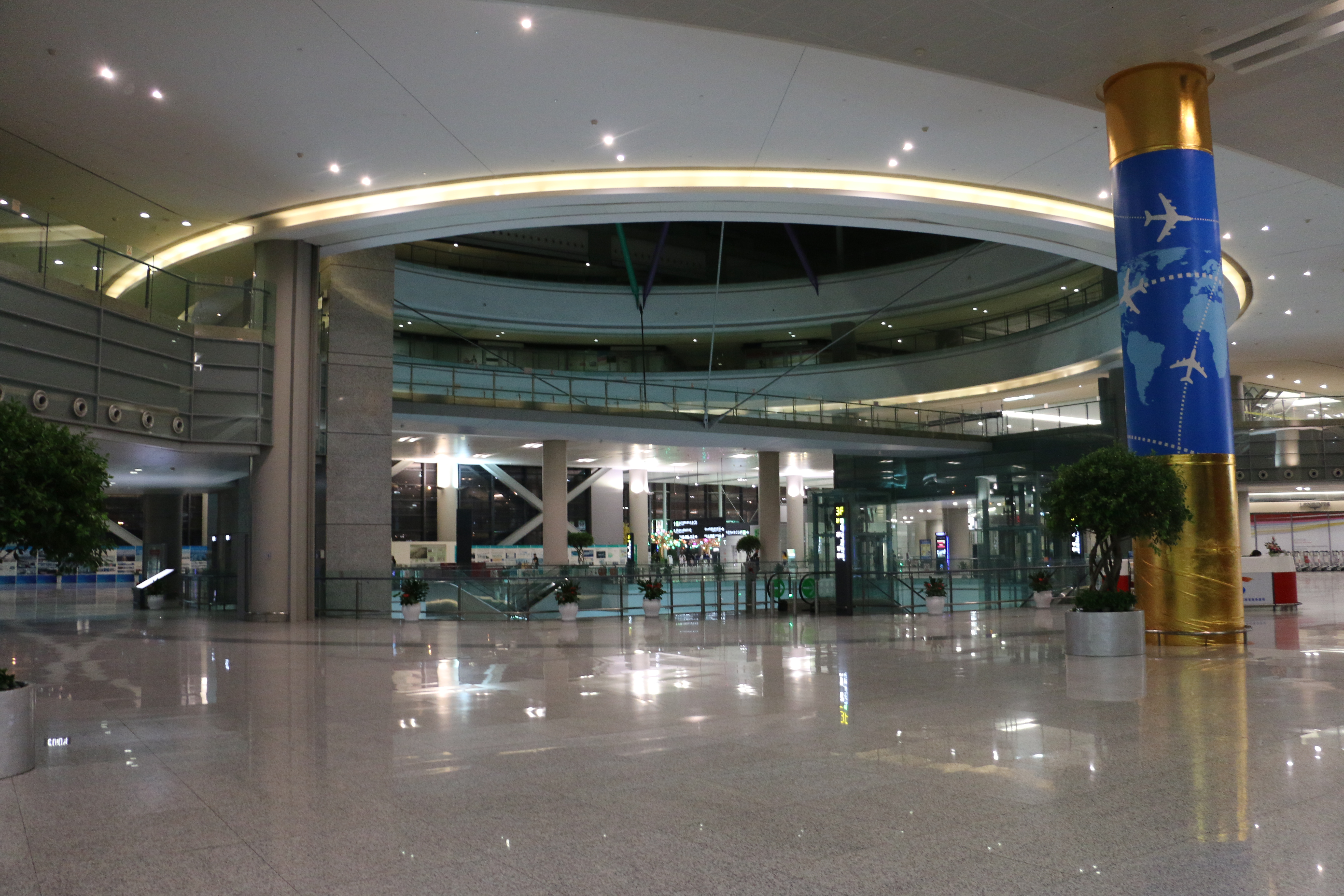 201604 Interchange hall of SHA